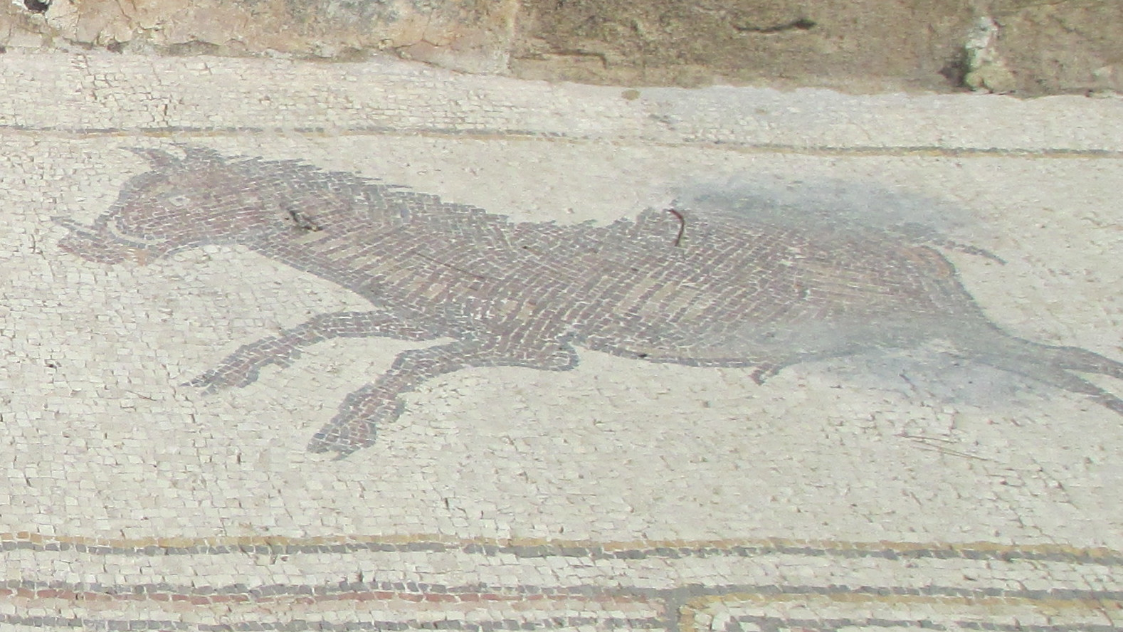 Bird mosaic in Caesarea